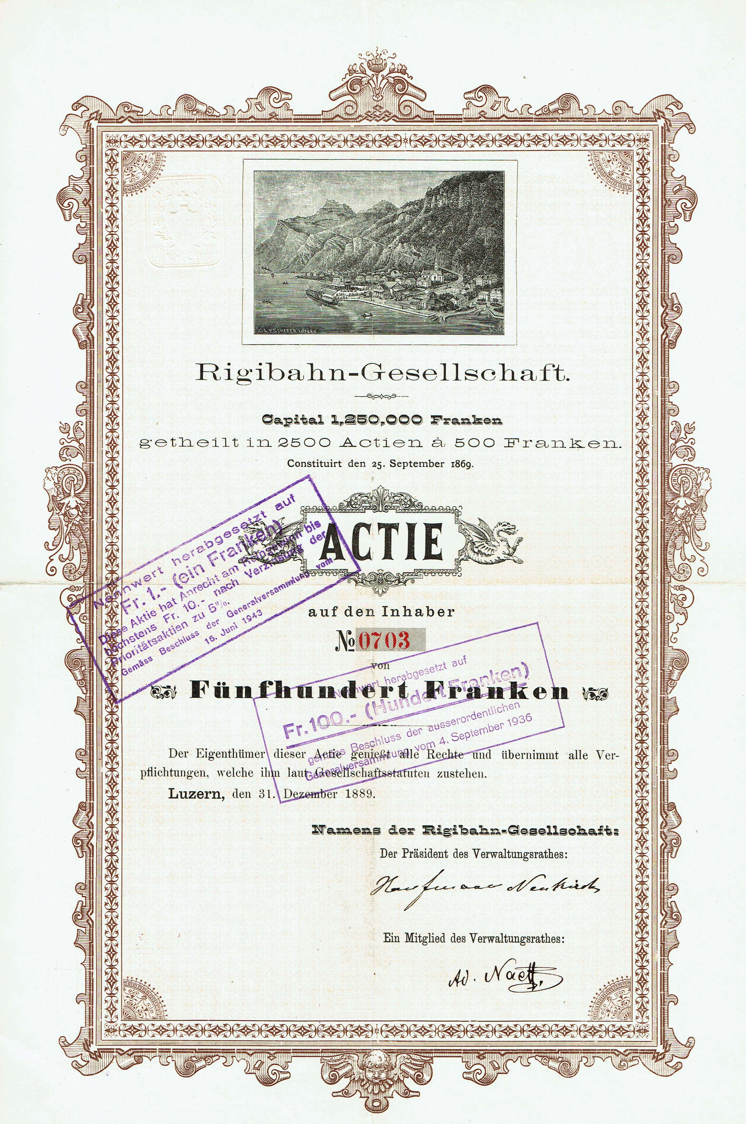 Share of the Rigibahn-Gesellschaft, issued 31. December 1889, signed by Adolf Naeff